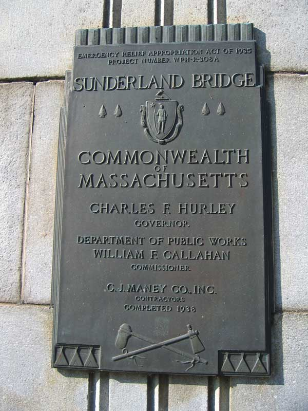 Dedication plaque for the Sunderland Bridge between Deerfield, Massachusetts and Sunderland, Massachusetts